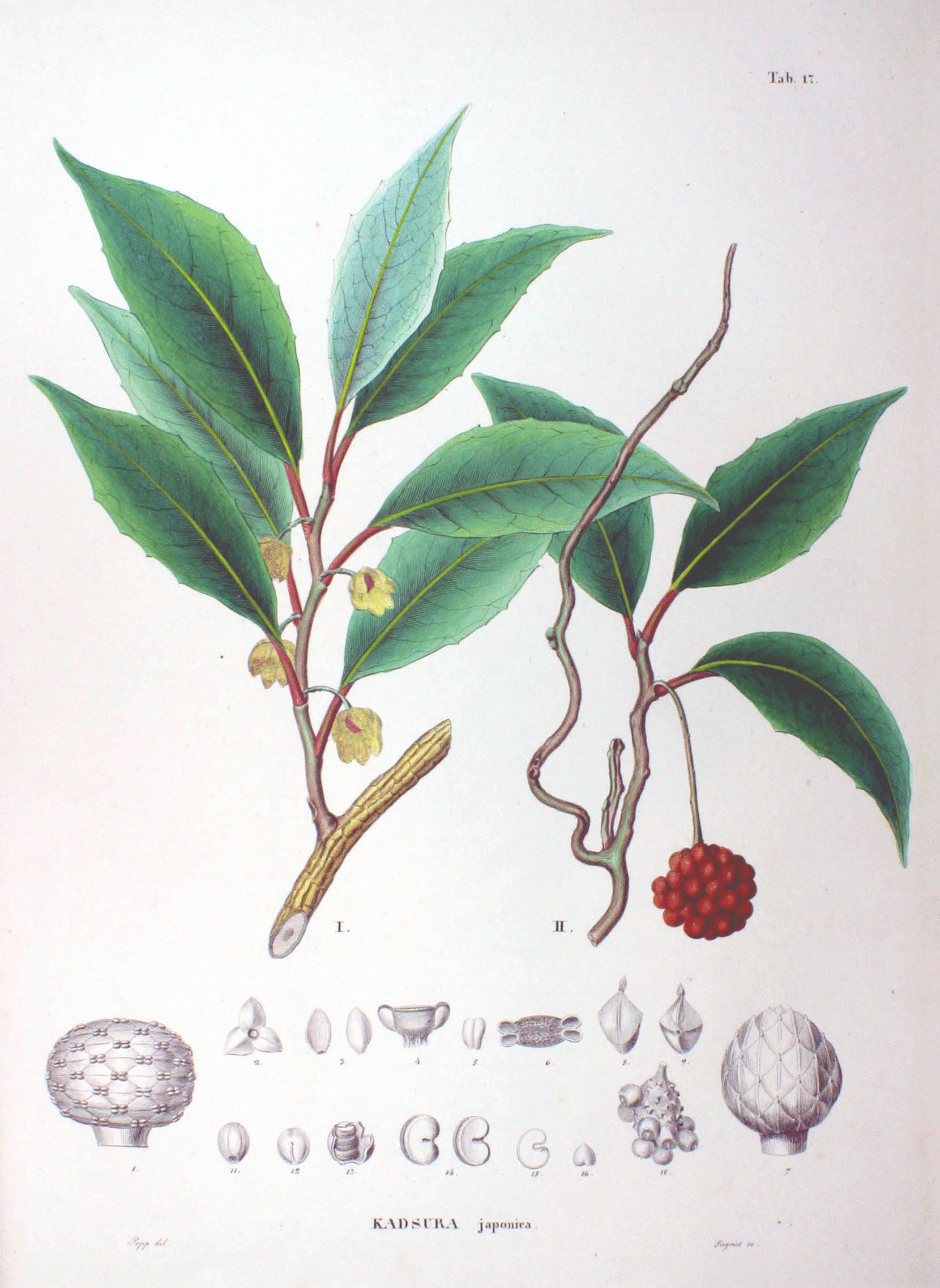 Plate from book